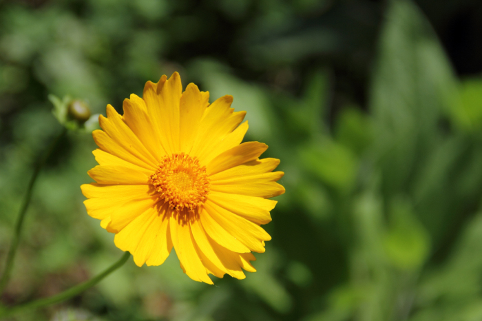 Family: Compositae Genus: Coreopsis Origin: North America Diameter of Flower: ~ 5 cm* Height: 30~70 cm